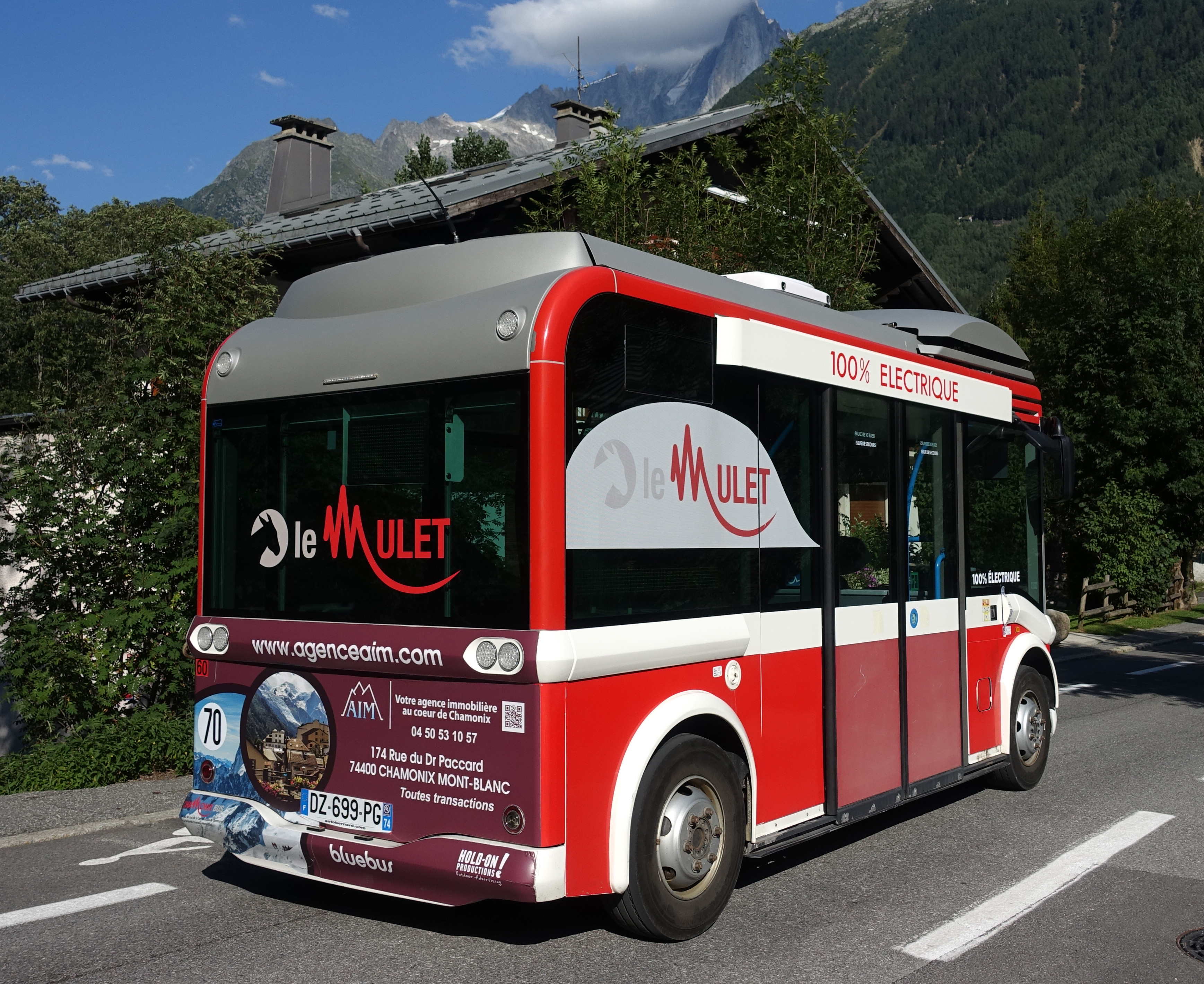 Le Mulet, electric bus in Chamonix, France.